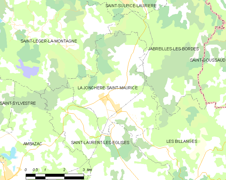 Map of French municipality La Jonchère-Saint-Maurice